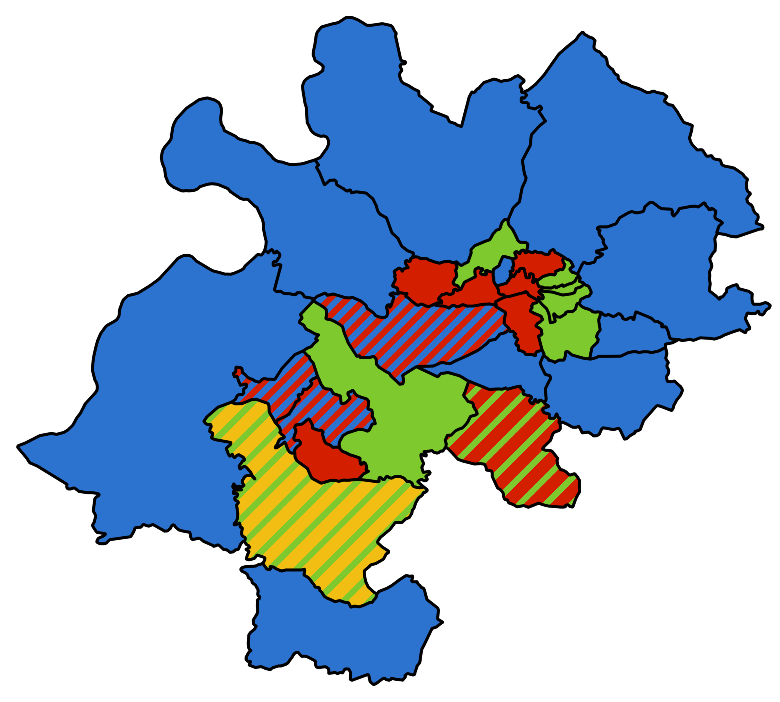 Results of the 2016 local election in Stroud Colours: Conservative Labour Liberal Democrat Green Party